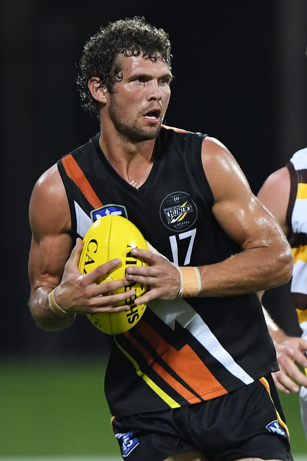 Joe Anderson of NT Thunder during the 2018 NEAFL round 17 match between NT Thunder and Canberra at TIO Stadium on 28 July 2018 in Darwin, Northern Territory.